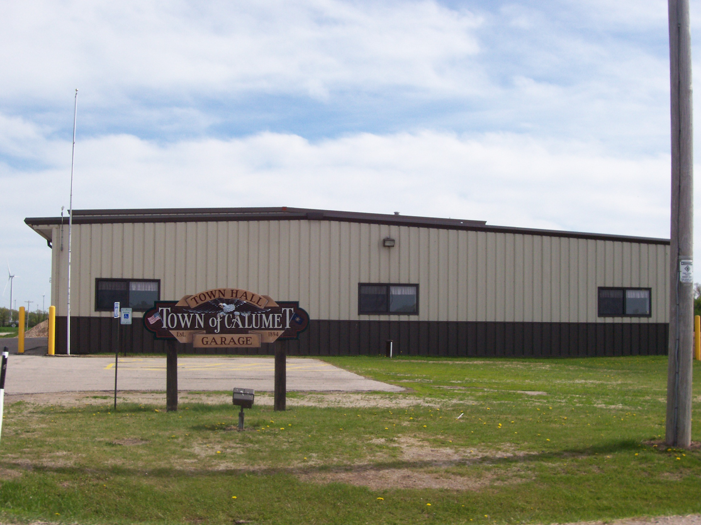 Looking south at the town hall for Calumet, Wisconsin, USA.